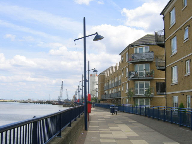 riverside apartments, Erith. some fairly new riverside apartment blocks just east of Erith town centre and facing the pier